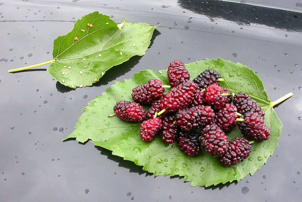 Morus nigra fruits and leaves